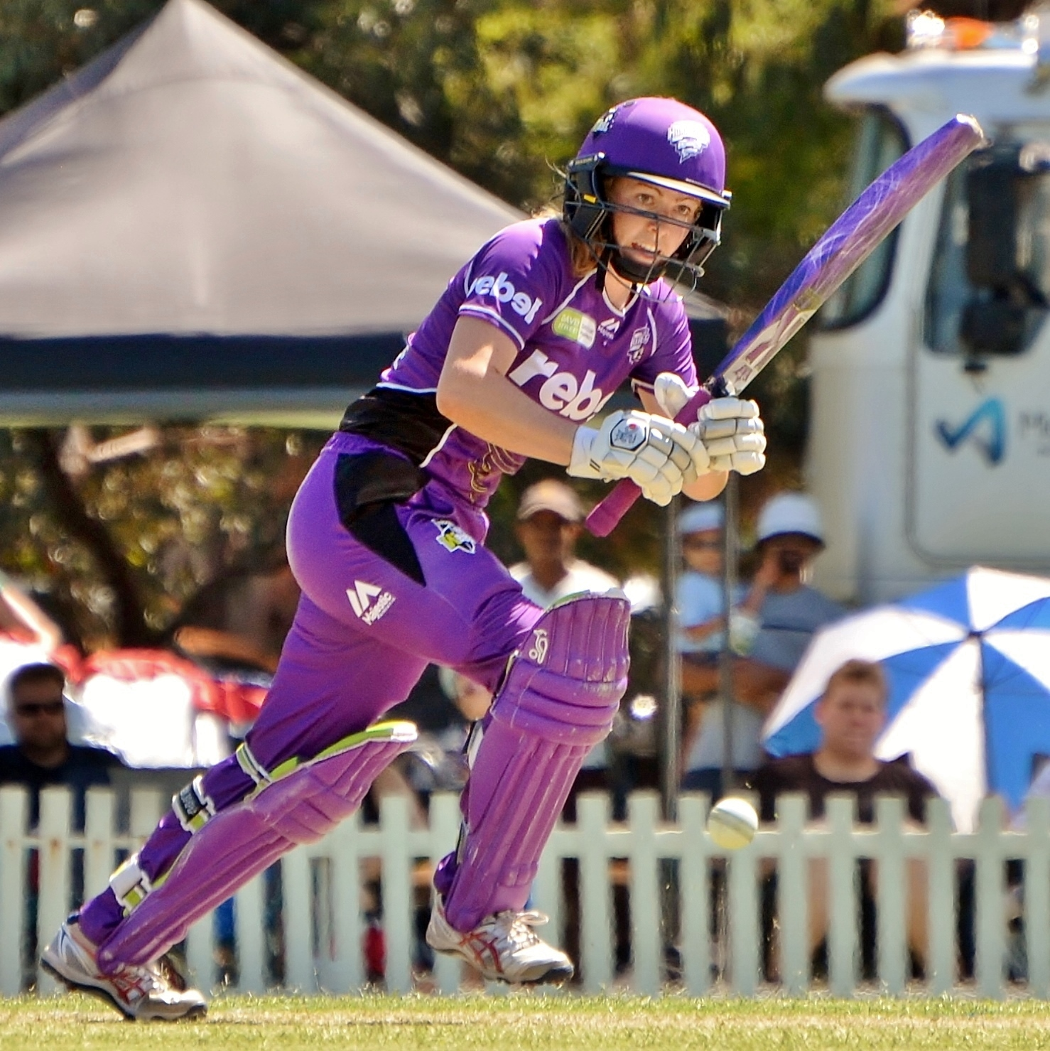 Hobart Hurricanes wicket-keeper / batter Georgia Redmayne in action against the Perth Scorchers, in a WBBL match at Lilac Hill Park in Perth